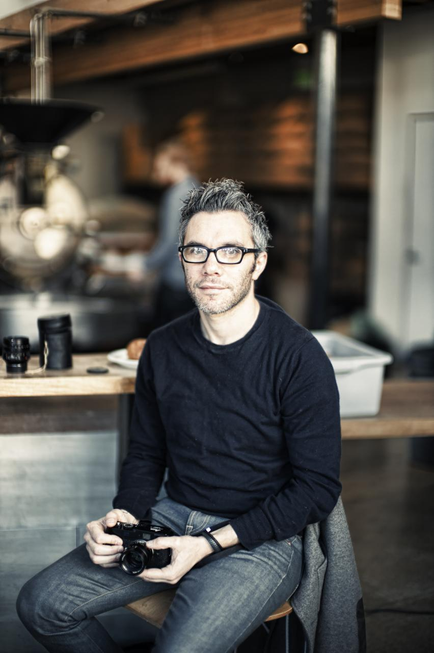 Nick Bilton